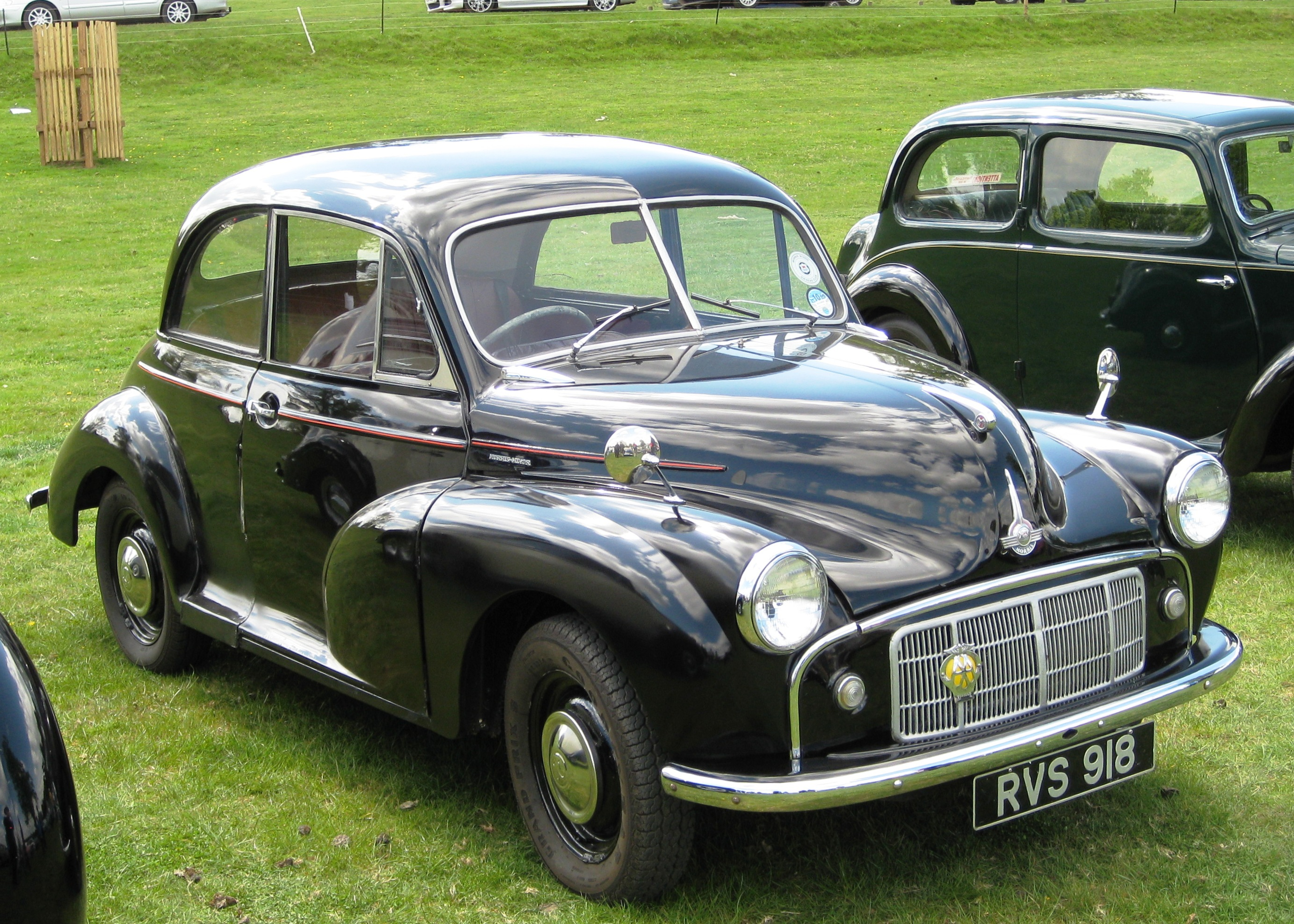 Morris Minor Series II in a field near Biggleswade.